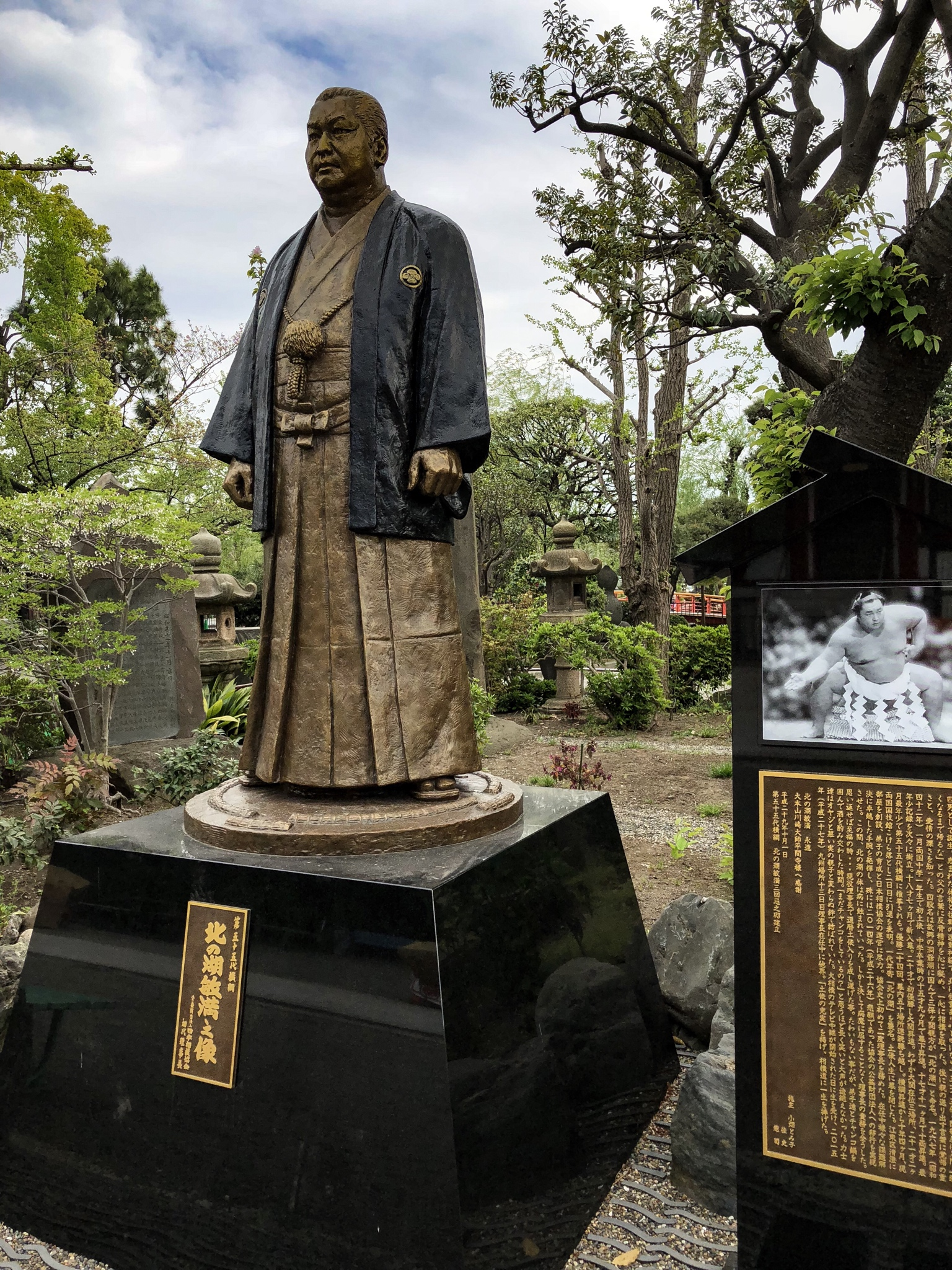 Statue of Kitanoumi Toshimitsu in kawasaki.